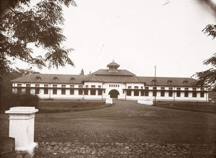 Secondary Agricultural School at Buitenzorg